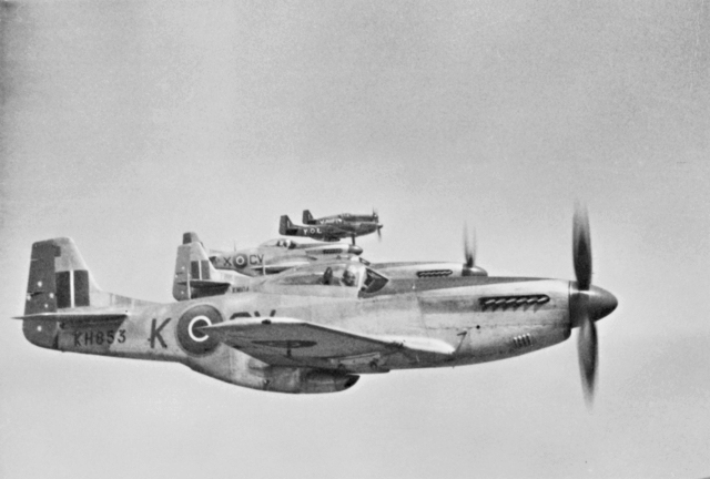 Australian P-51B and P-51D Mustangs from No. 3 Squadron RAAF return from a mission in Italy in May 1945